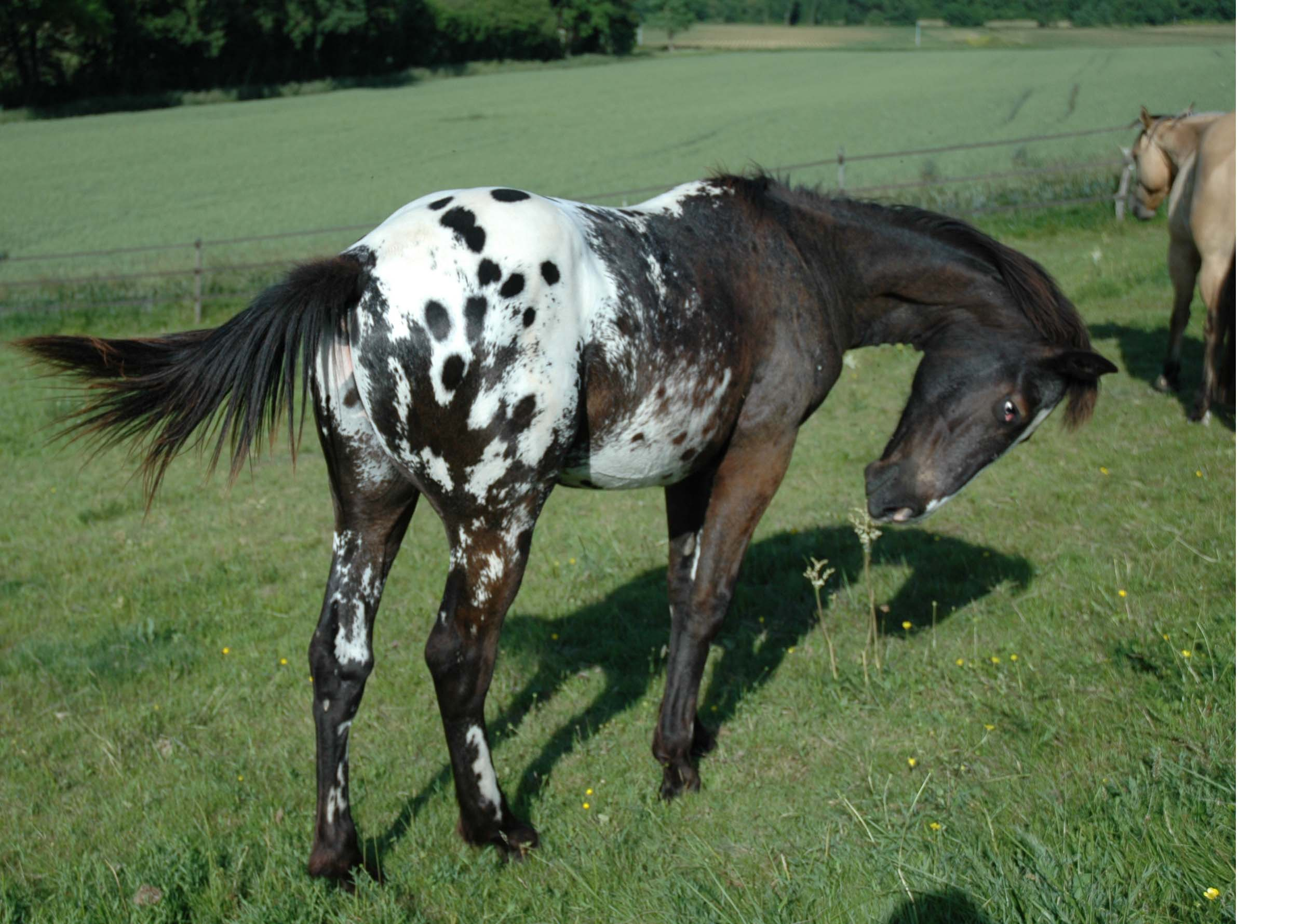 Toby Quanah MVS - Appaloosa blanket, Appaloosa Fondation Toby Quanah MVS